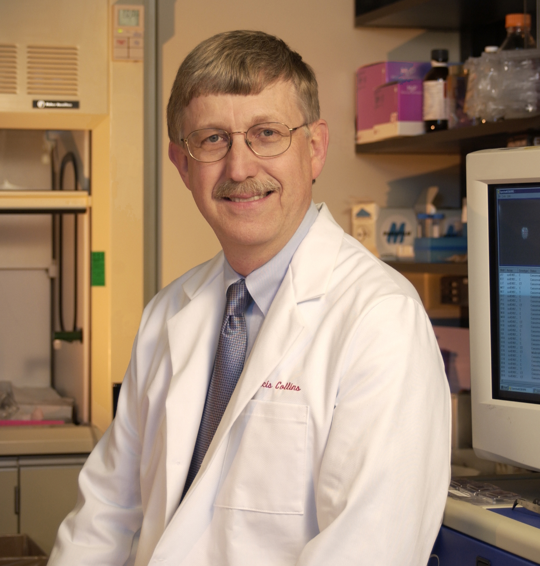 Portrait of Francis S. Collins, American scientist. Taken in 2003.